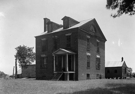 Mulberry Hill, Sound Shore Road, Edenton vicinity (Chowan County, North Carolina) - cropped